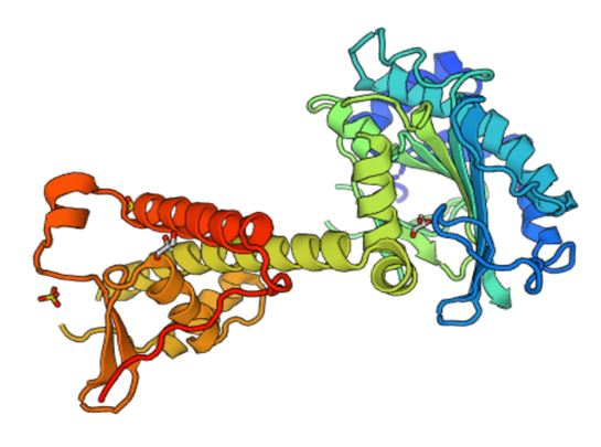 3-D structure of KIAA1551 protein.